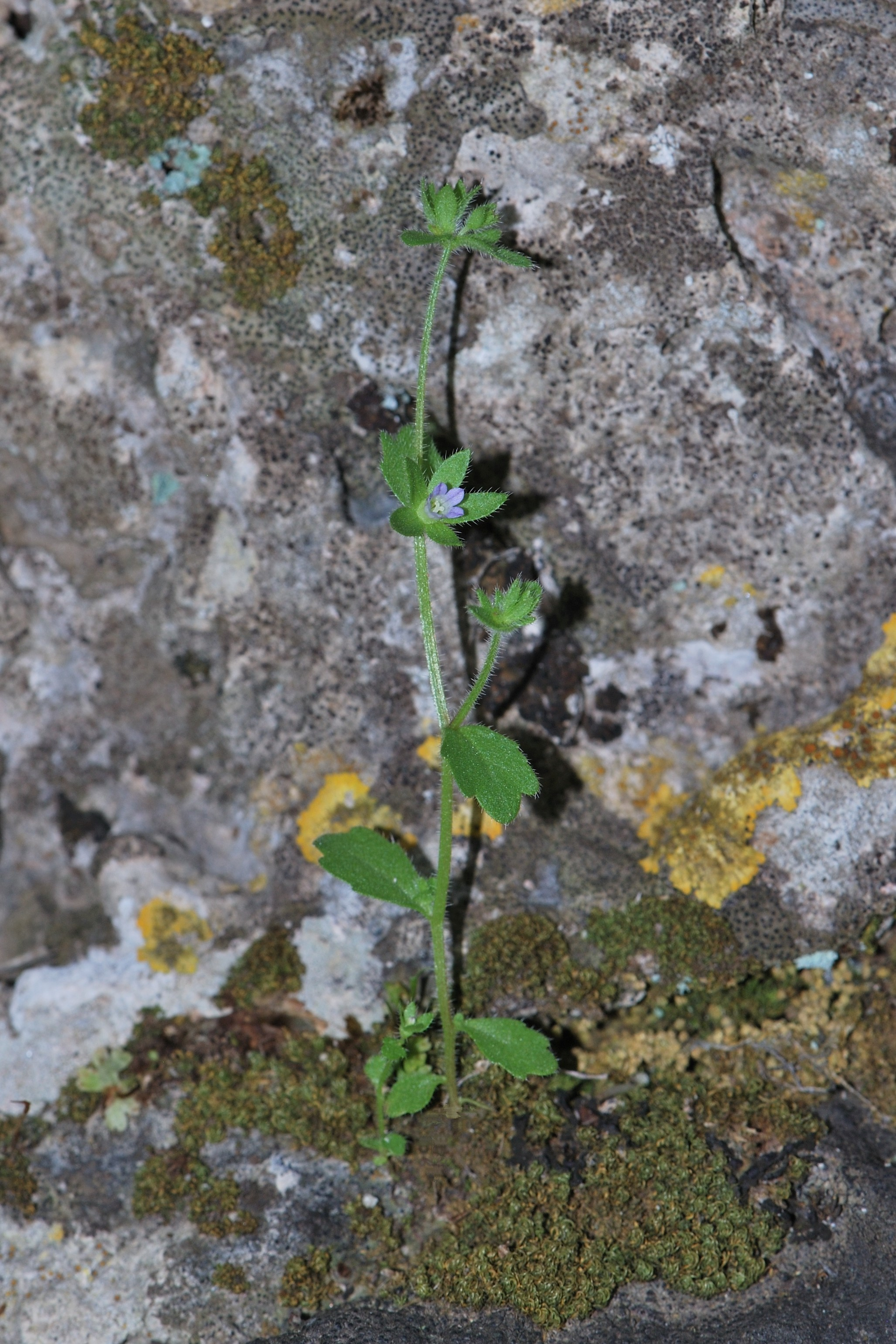 Campanula erinus L., Mount Carmel, Israel, April 16, 2011.